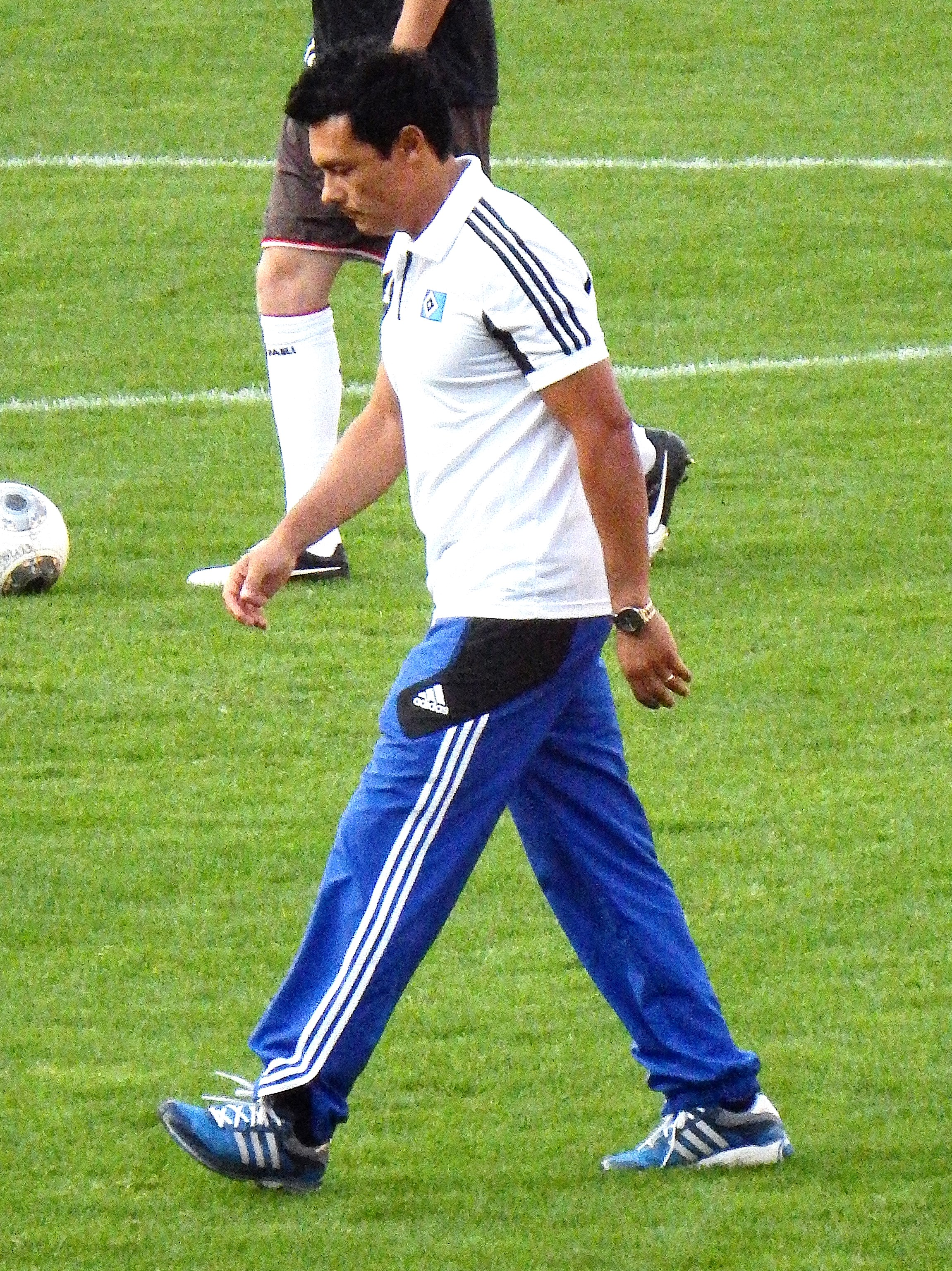 Rodolfo Cardoso as Coach of Hamburger SV II.